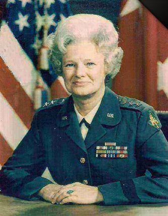 Photo of Major Gen. Mary E. Clarke